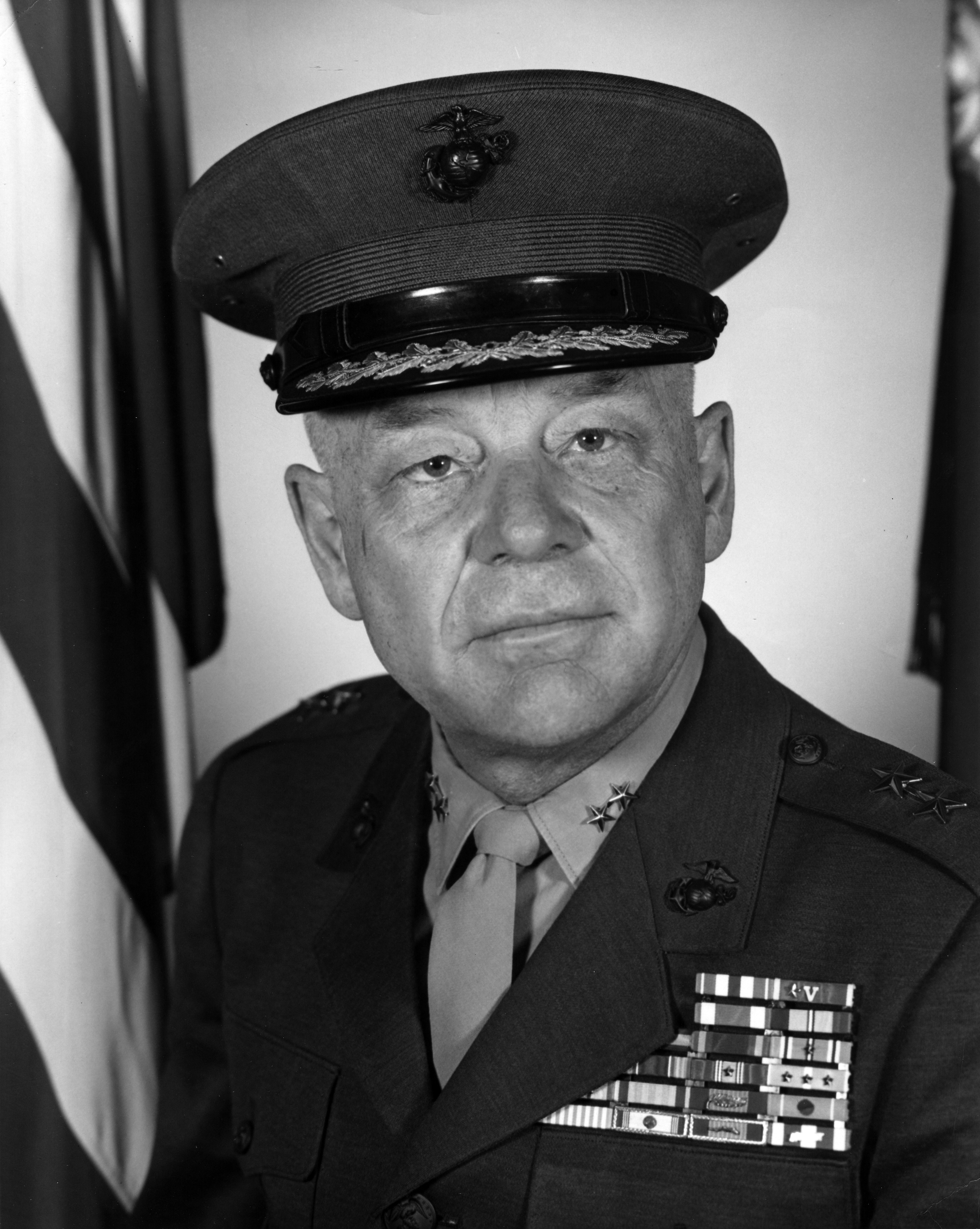 Wilbur Frank Simlik (June 19, 1921 - February 12, 2014) was a highly decorated officer in the United States Marine Corps with the rank of Major general. A veteran of World War II, he distinguished himself as Platoon leader of 3rd Battalion, 25th Marines during Iwo Jima campaign and received Silver Star for bravery. Simlik remained in the Marine Corps Reserve following the War, but was recalled to active duty during the Korean War and distinguished himself again as Rifle Company commander. During the Vietnam War, Simlik commanded 3rd Marine Regiment and rose to the general's rank. He completed his service as Fiscal Director of the Marine Corps in September 1975.